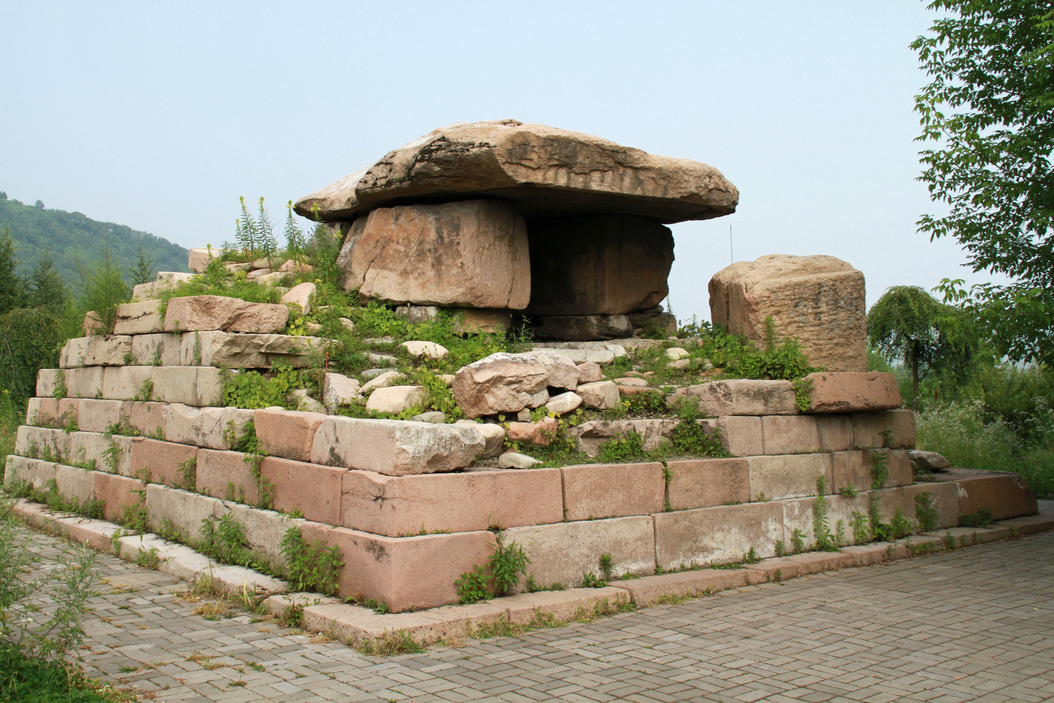 Photograph of a small tomb next to the "General's Tomb" (a royal tomb of the Goguryeo Kingdom) in Ji'an, Jilin Province, China.